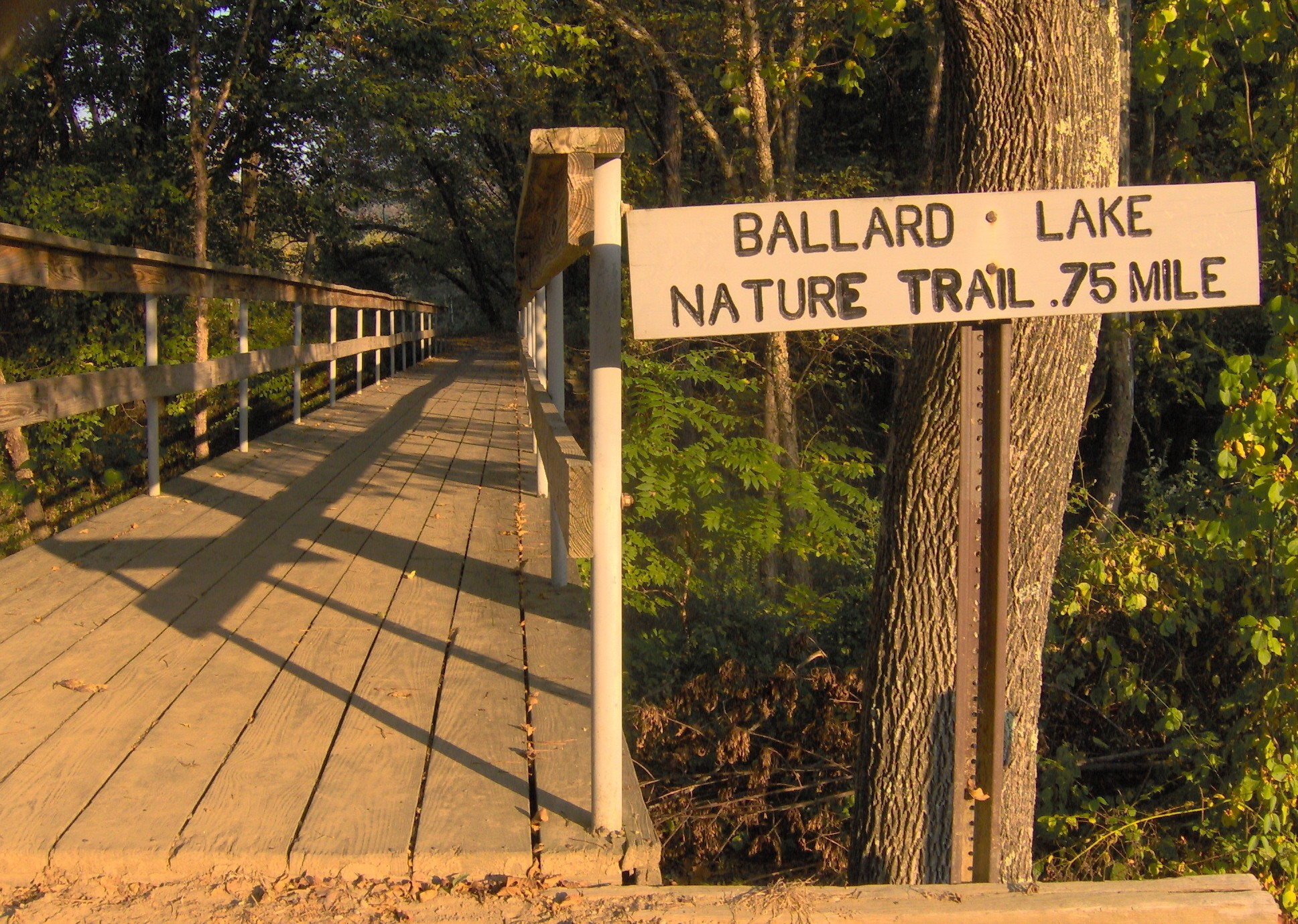 Sign marking the Ballard Lake Nature Trail access at Indian Mountain State Park in Jellico, Tennessee, in the southeastern United States. The bridge crosses Elk Creek, and the trail circles Ballard Lake, a large pond in eastern section of the park.